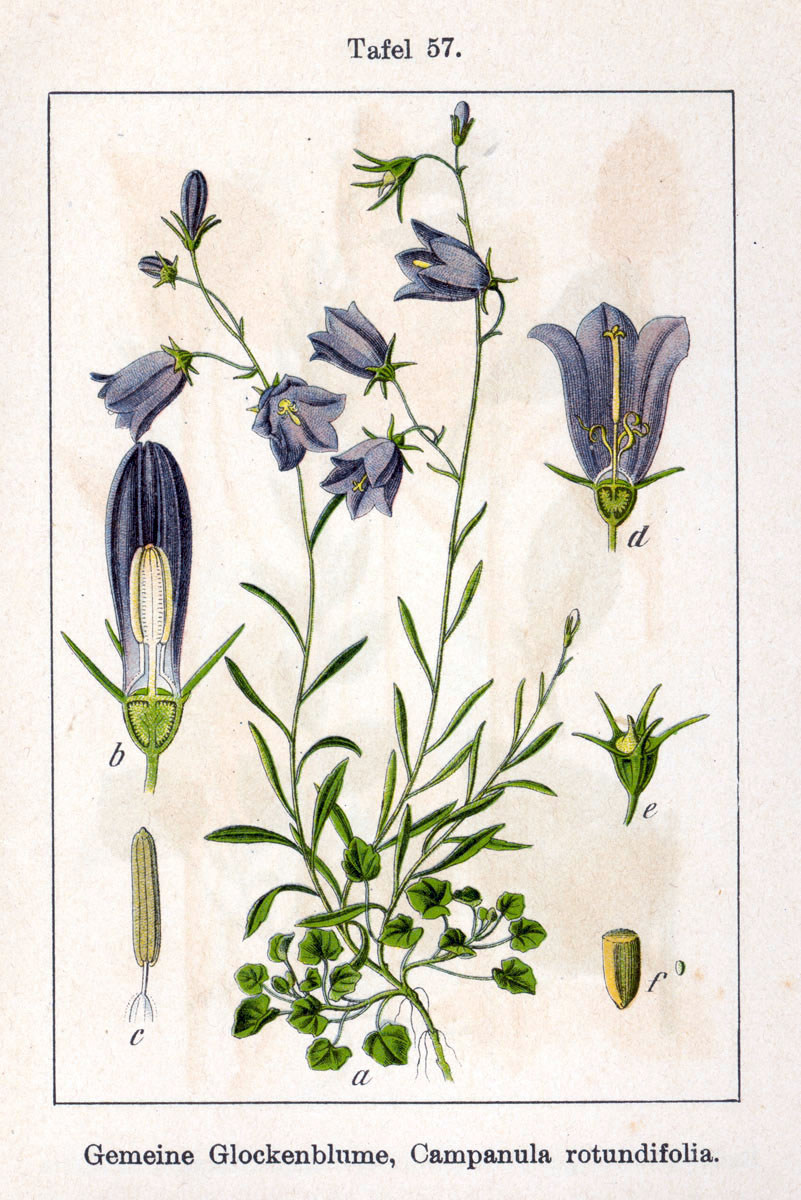 Campanula rotundifolia L. s. str. Original Description Gemeine Glockenblume, Campanula rotundifolia